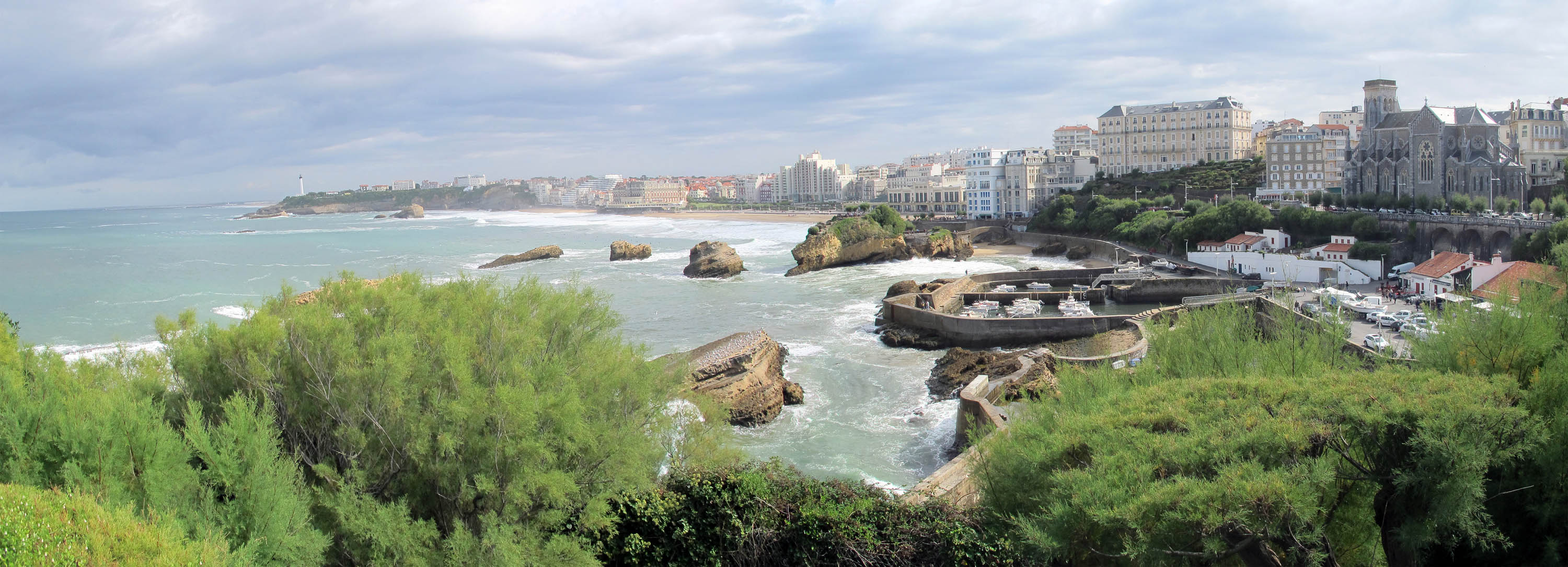 Old harbor, beach and lighthouse of Biarritz